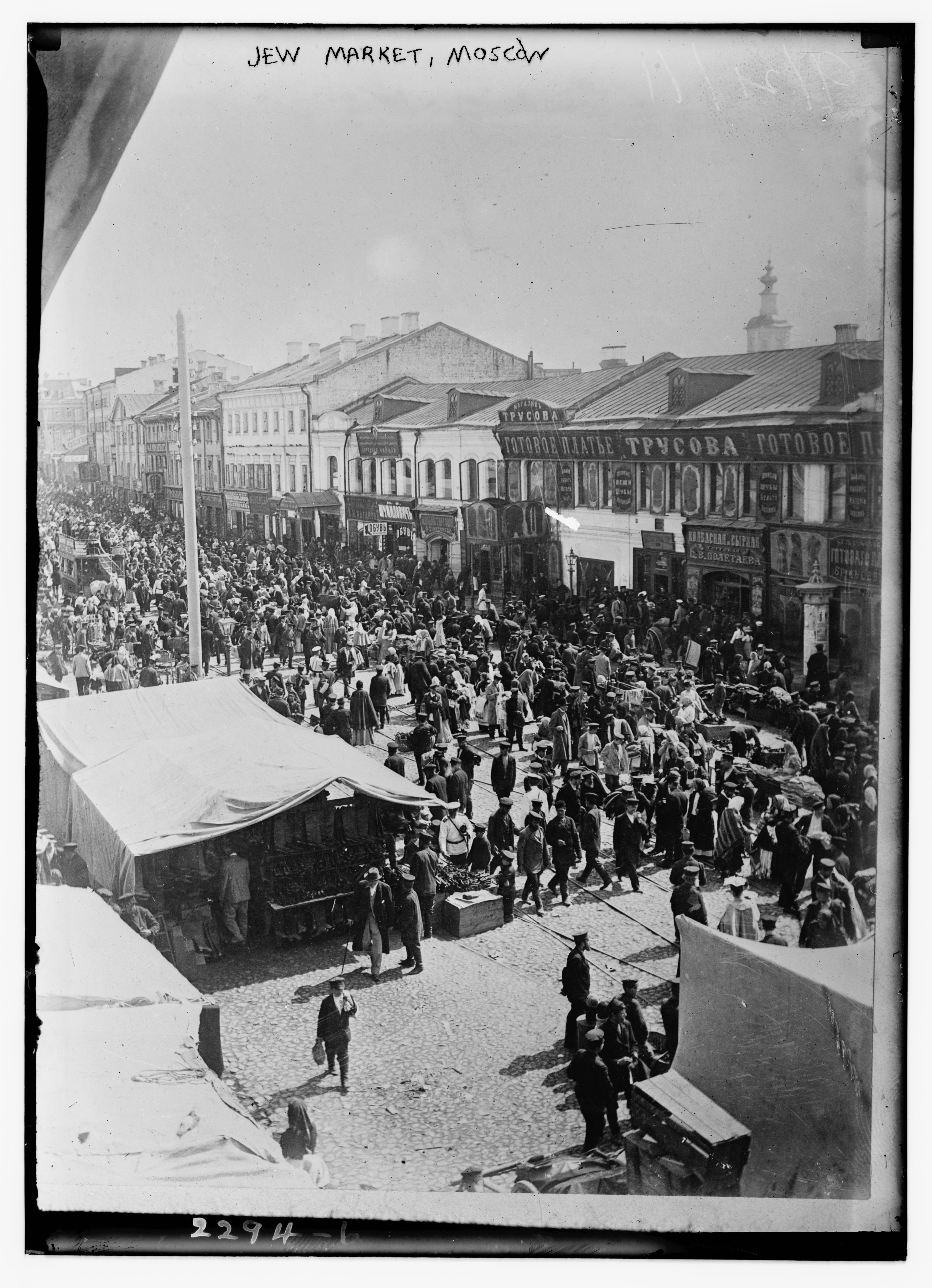 Title: Jew [i.e., Jewish] Market, Moscow Abstract/medium: 1 negative : glass ; 5 x 7 in. or smaller.